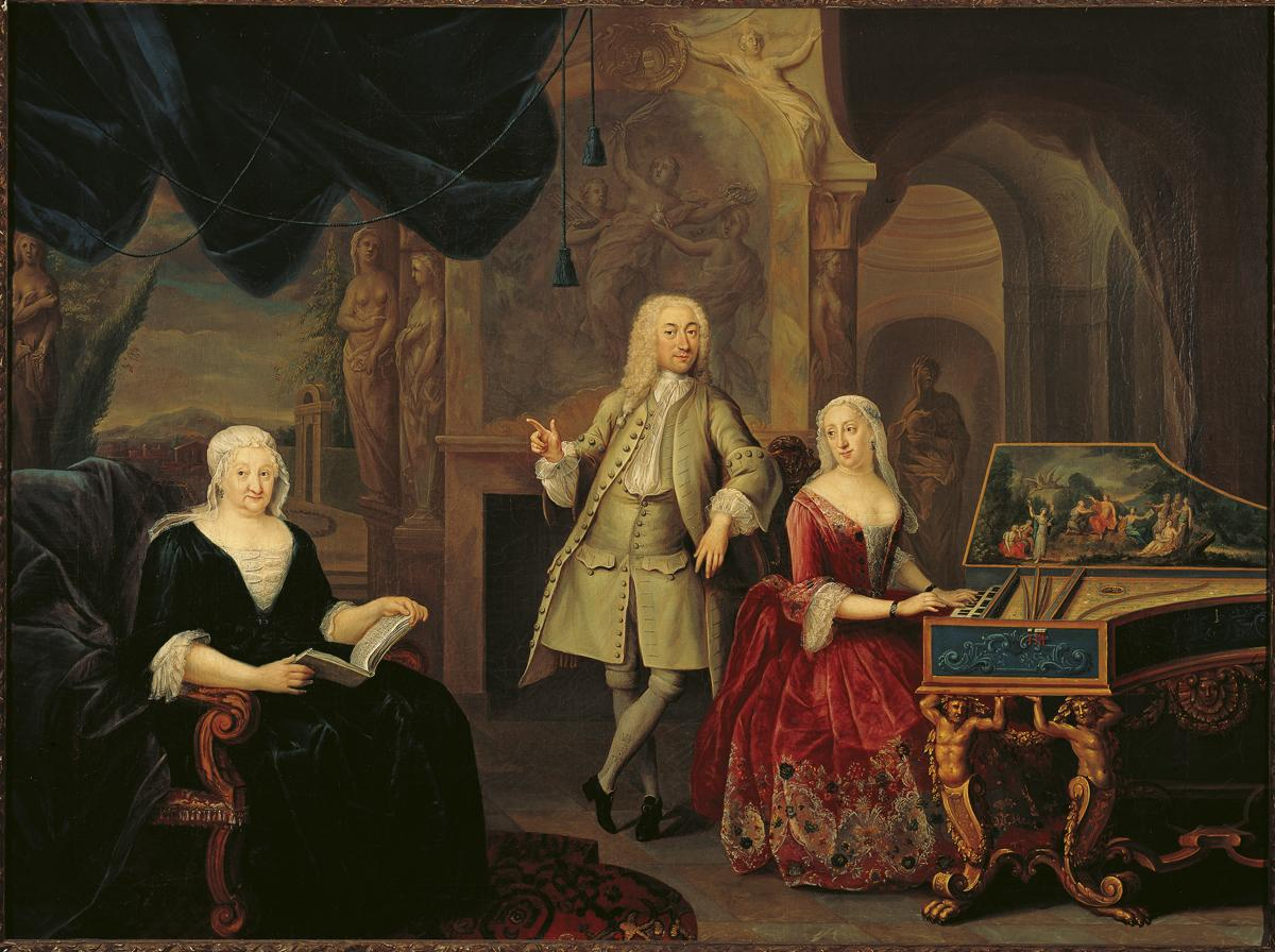 Portrait of the family of Sara Rothé and Jacob Ploos van Amstel, 1735